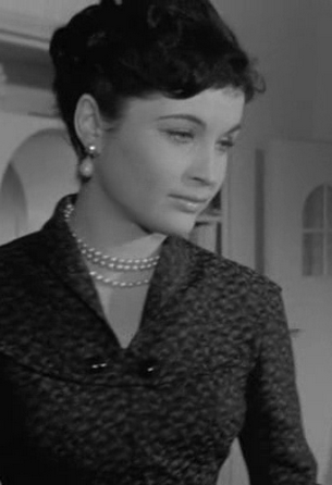 Yvonne Furneaux in a scene of the film Le amiche